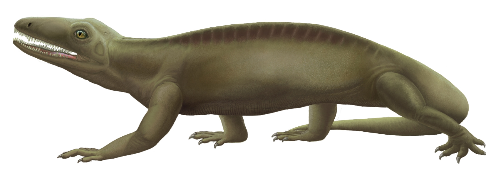 Life restoration of Echinerpeton intermedium. Based on figures 11 and 12 of "Pelycosaurian reptiles from the Middle Pennsylvanian of North America" by Robert Reisz (Bulletin of the Museum of Comparative Zoology 144 (2): 27-62).